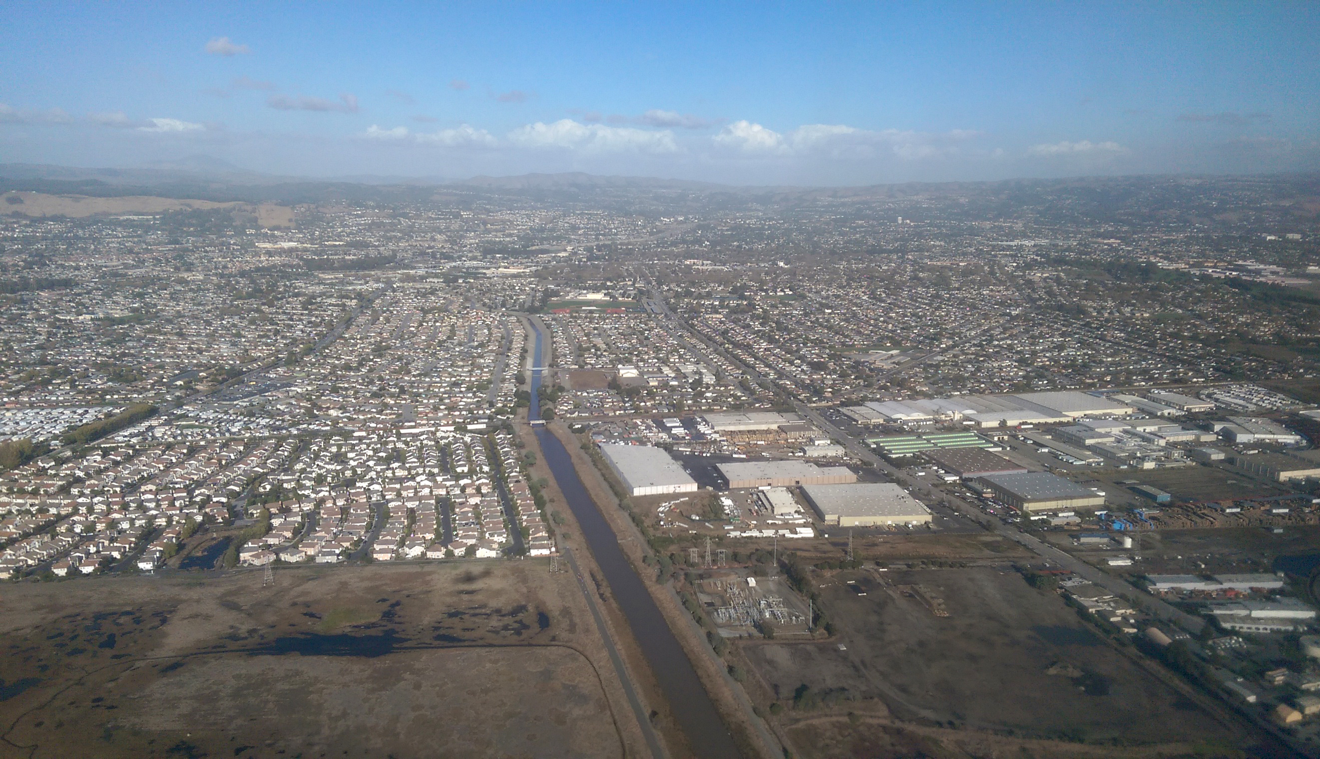 San Lorenzo